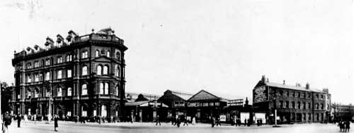 The old Queens Hotel, Leeds, England. Designed by Perkin & Backhouse for the Midland Railway, it was opened in 1863, and demolished in 1935. It featured exterior stone carving by Matthew Taylor.